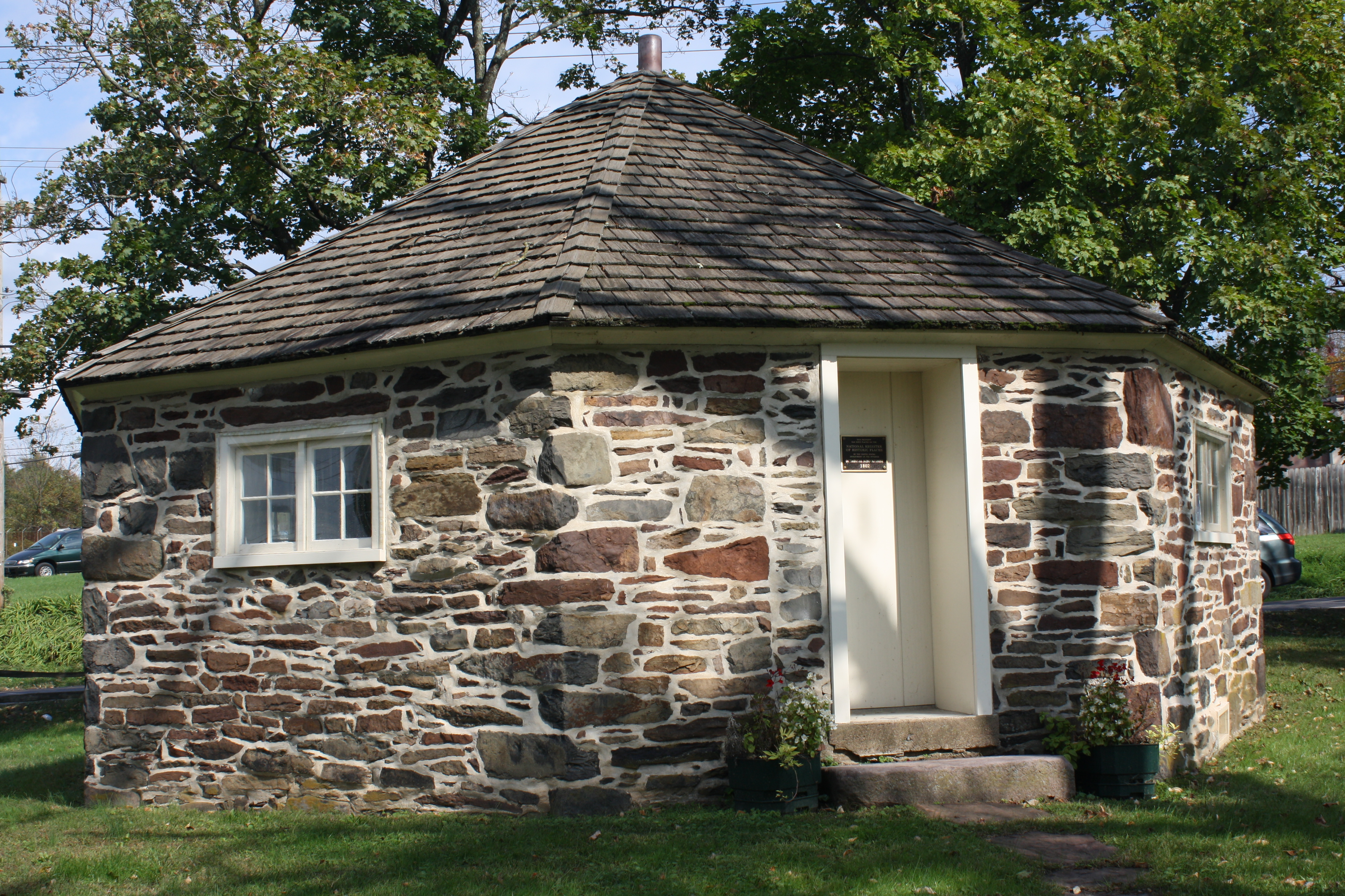 Wrightstown Octagonal Schoolhouse. October 2012. Object location40° 15′ 24″ N, 75° 00′ 23″ W